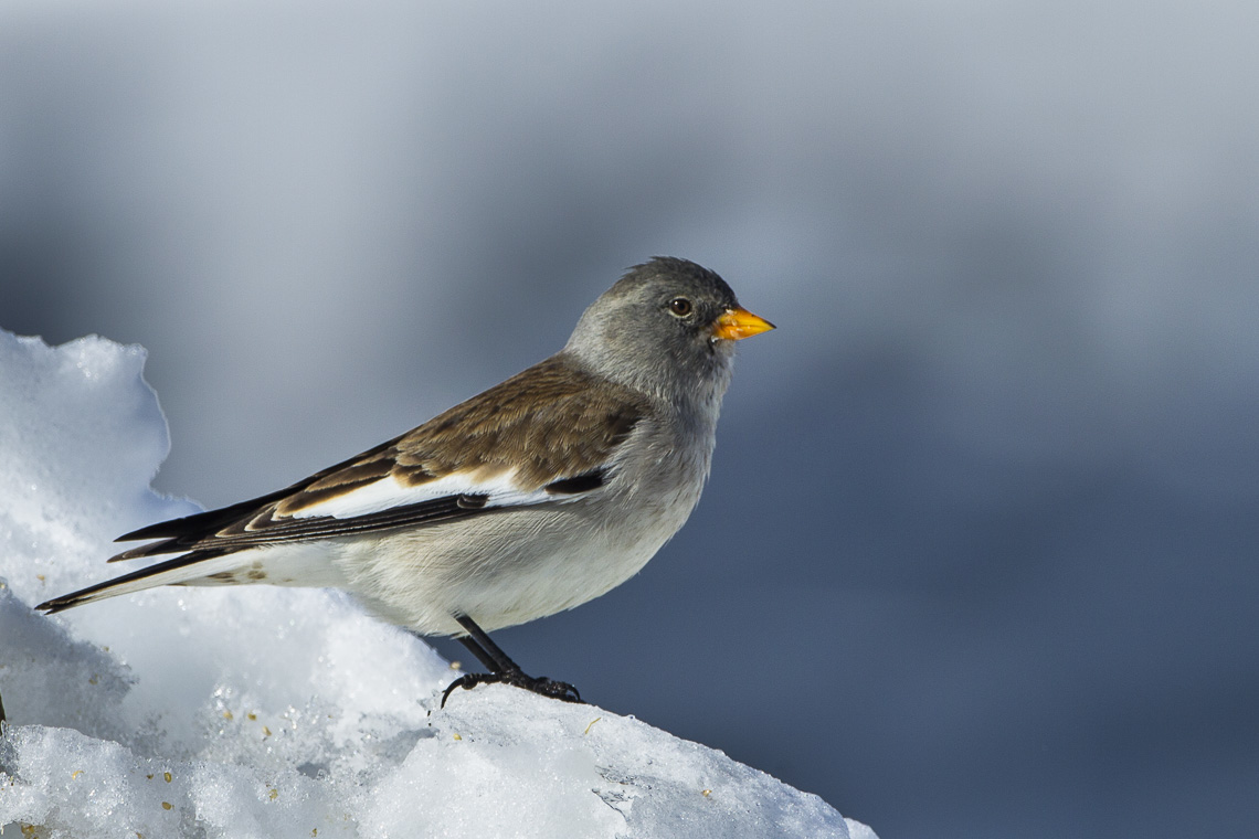 White-winged Snowfinch - Lessinia_S4E3611